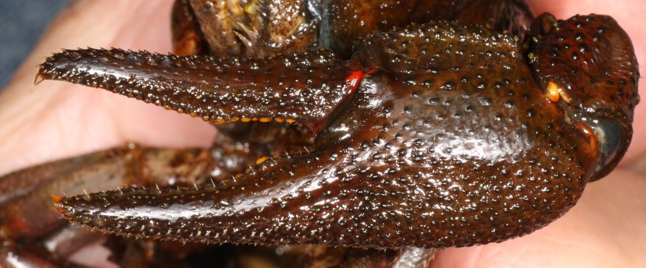 Noble crayfish have claws with no white spots